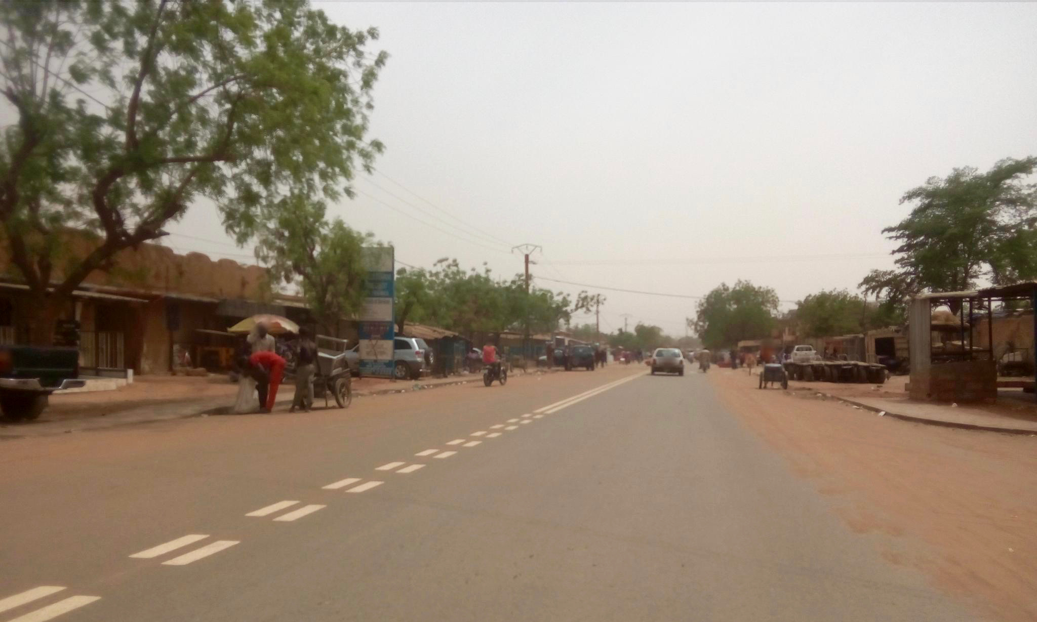 Avenue de l’Ader as the boundary road between the quarters of Boukoki IV (left) and Boukoki I (right), Niamey.